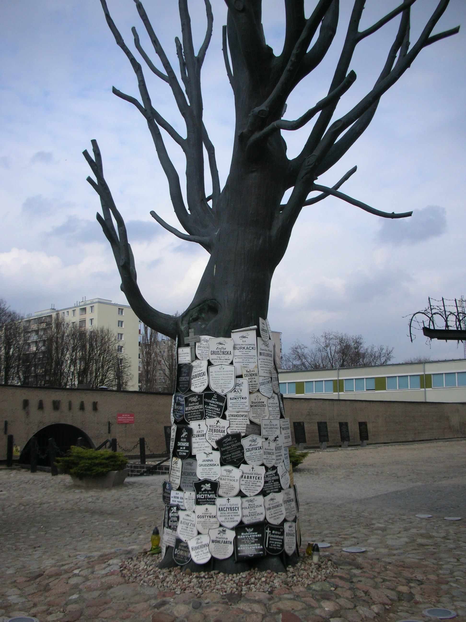 Pawiak jail in Warsaw